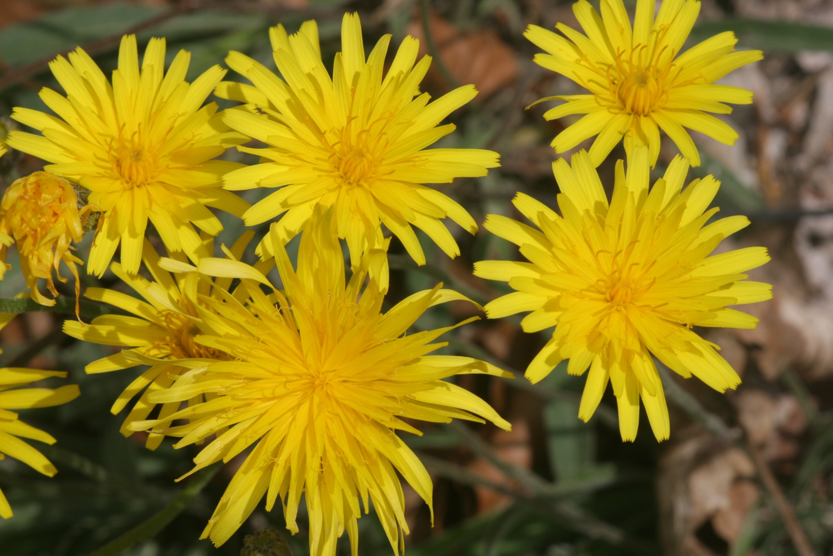 Leontodon incanus